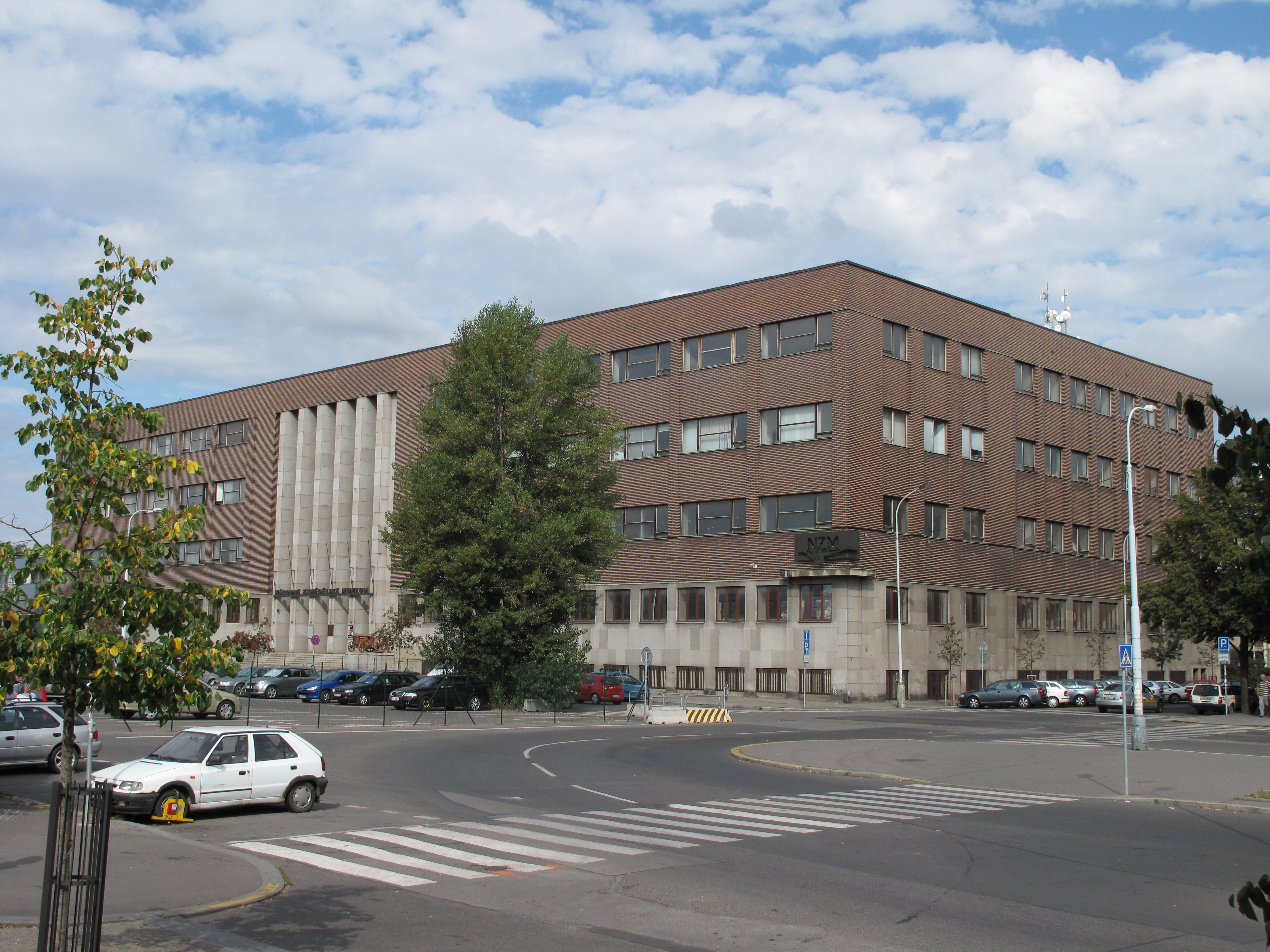 National Museum of Agriculture, Prague, Letná, Czech Republic.